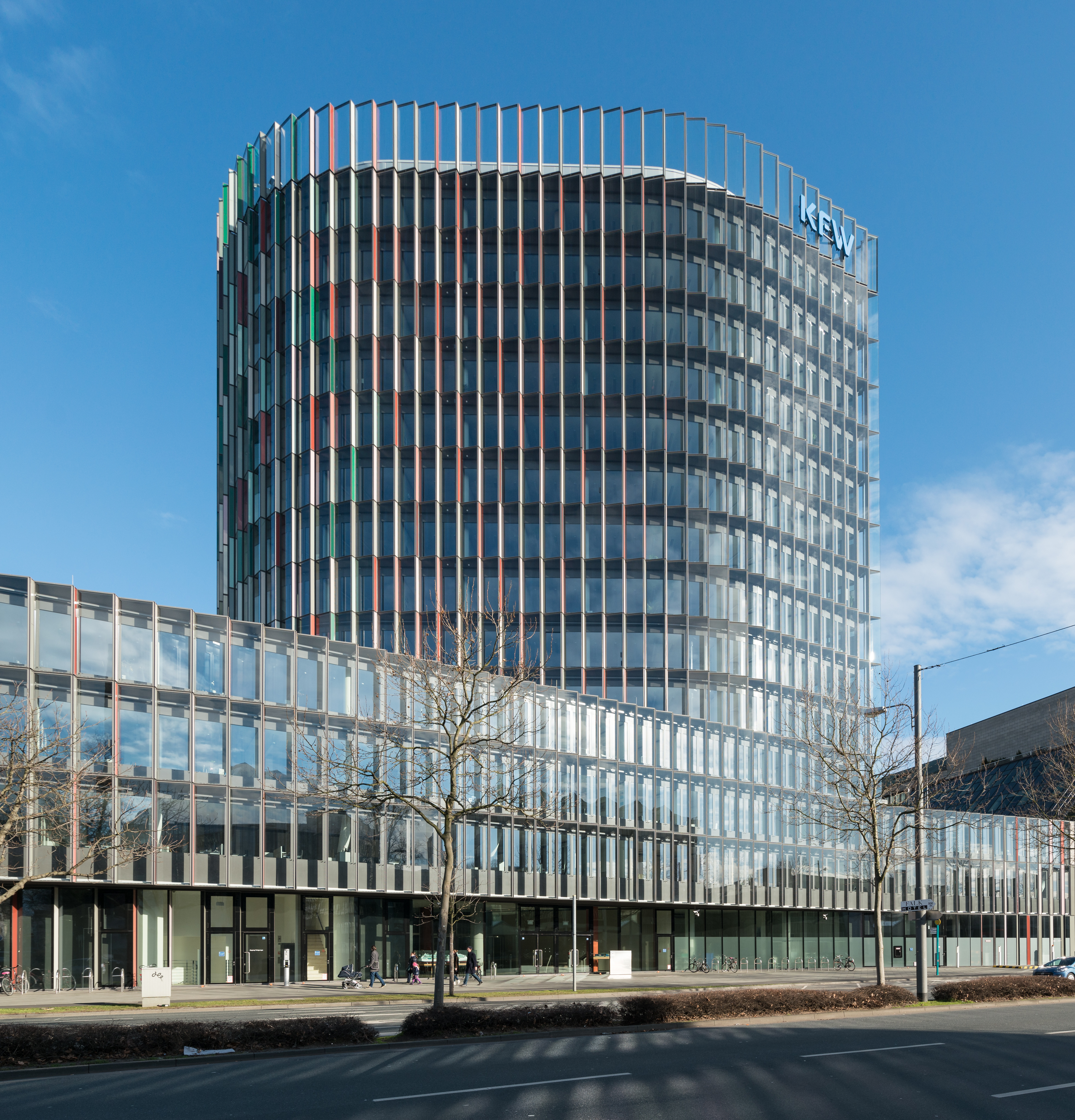 A northwest view of the highrise forming part of Westarkade, Frankfurt am Main